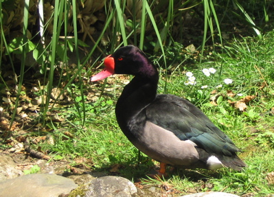 Rosy-billed Pochard Netta peposaca in Tarbes, France Made and uploaded by User:Leland. Presumed GFDL.